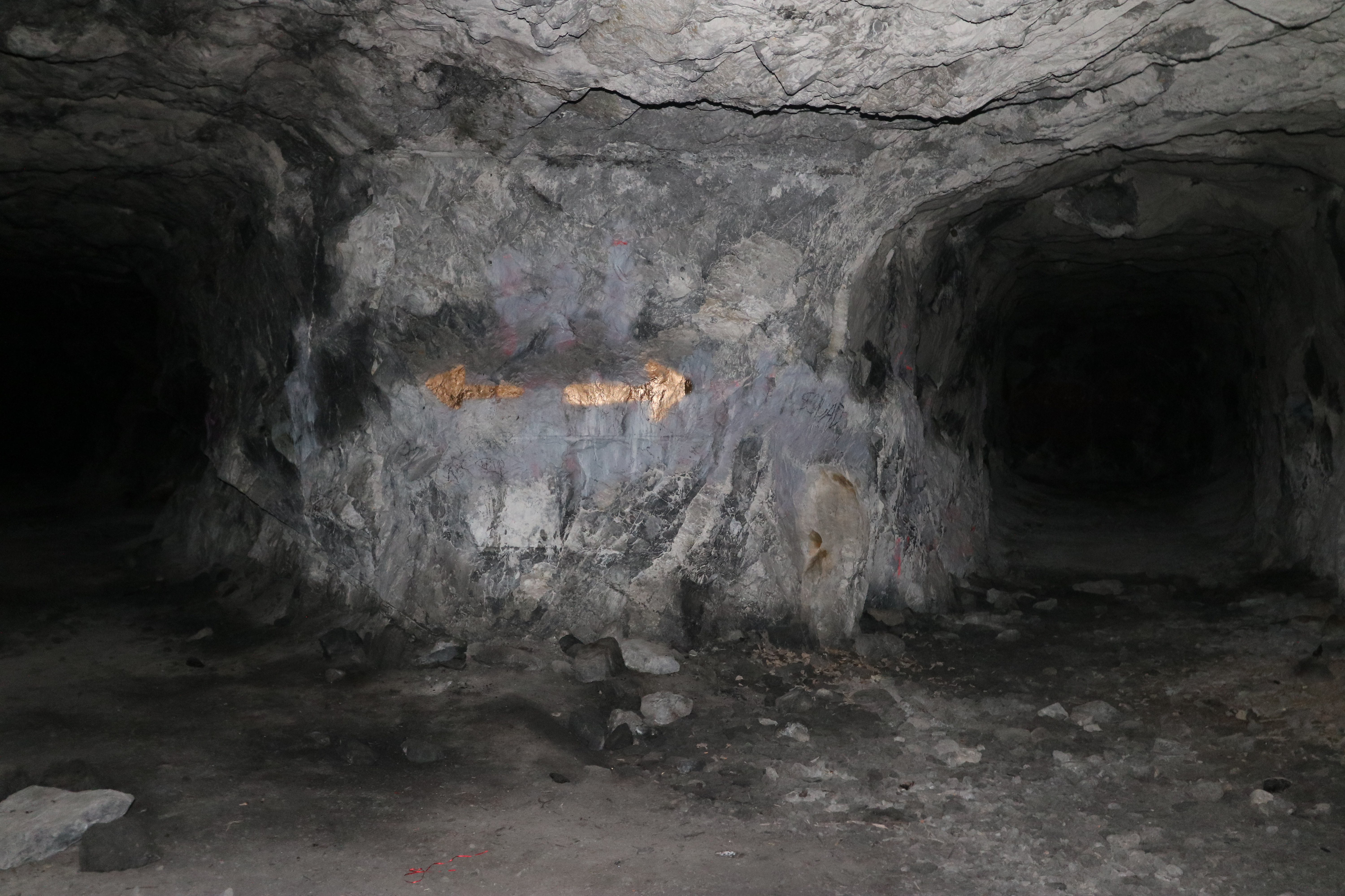 A few shots from yesterdays trip to the bunker, always nice and cool in there.